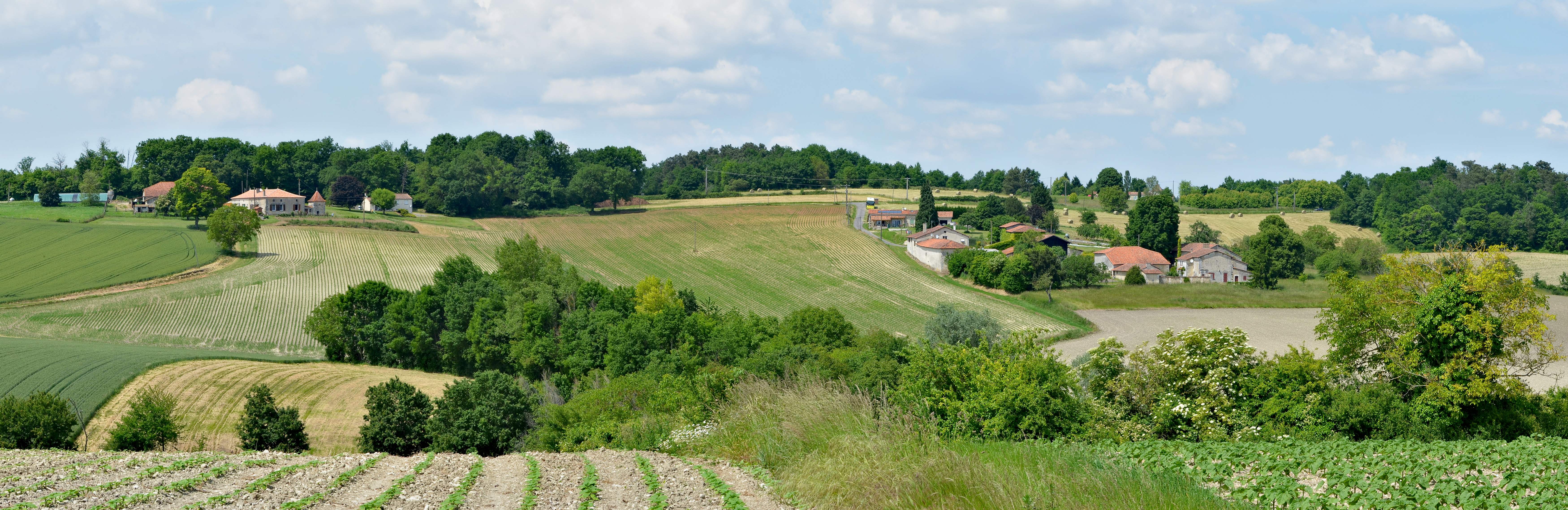 Farmsteads woods and fields, near Montmoreau-Saint-Cybard, Charente, France.